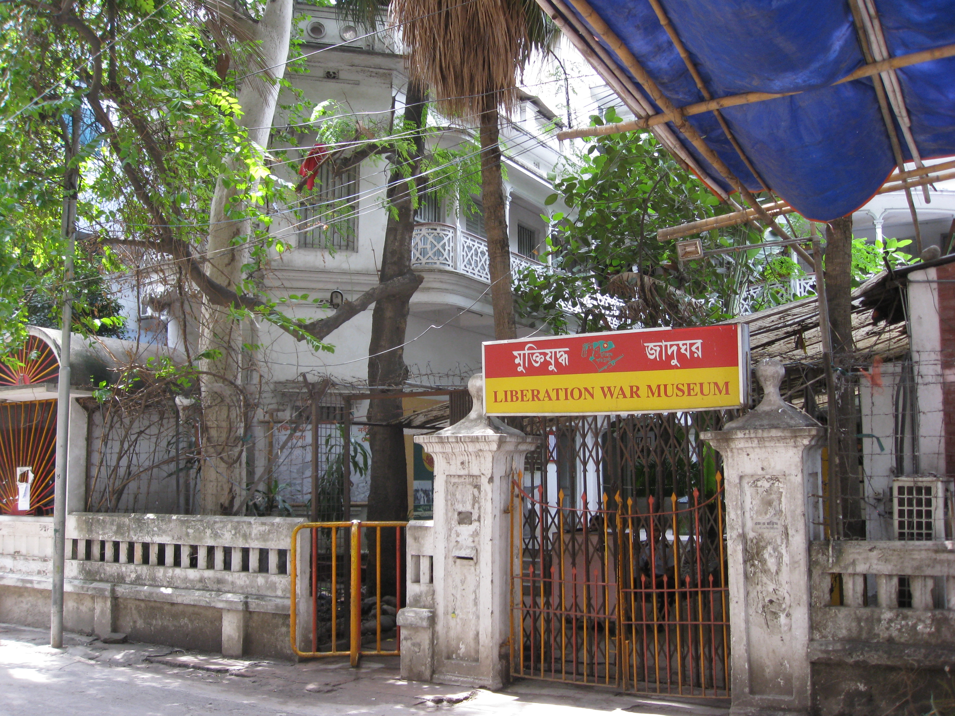 The Liberation War Museum in Dhaka conserves artifacts and evidence of the violence, death, and rape in Bangladesh in 1971.